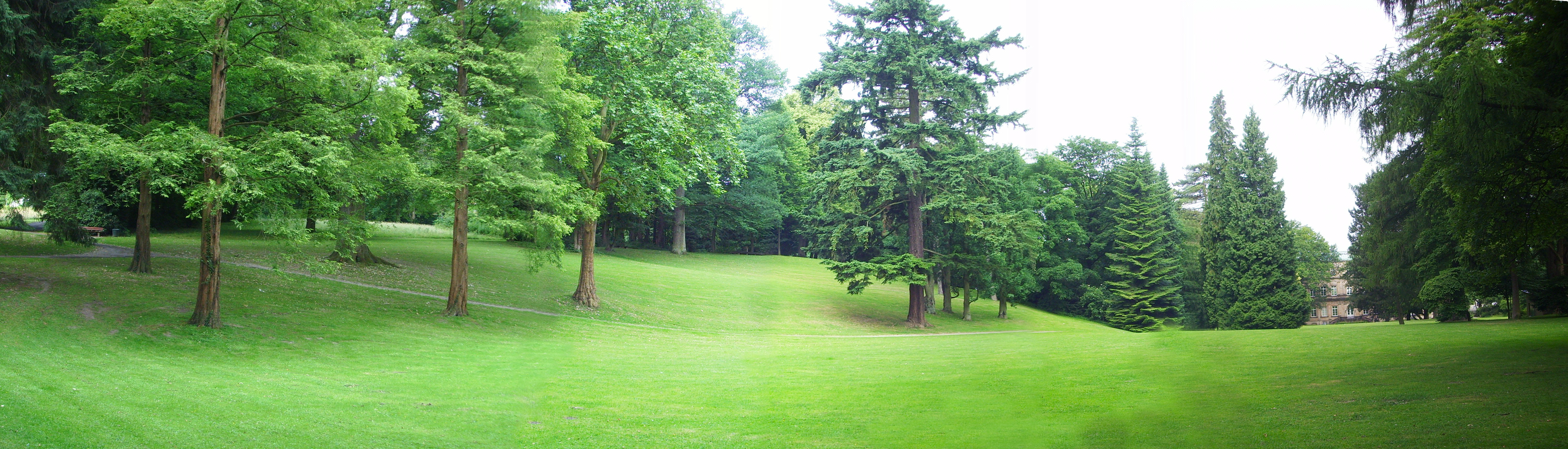 Palaisgarten Detmold Panorama Source: own work Date: June 21, 2008, Detmold, North Rhine-Westphalia, Germany Author: Maschinenjunge Licence: GFDL, cc-by 3.0